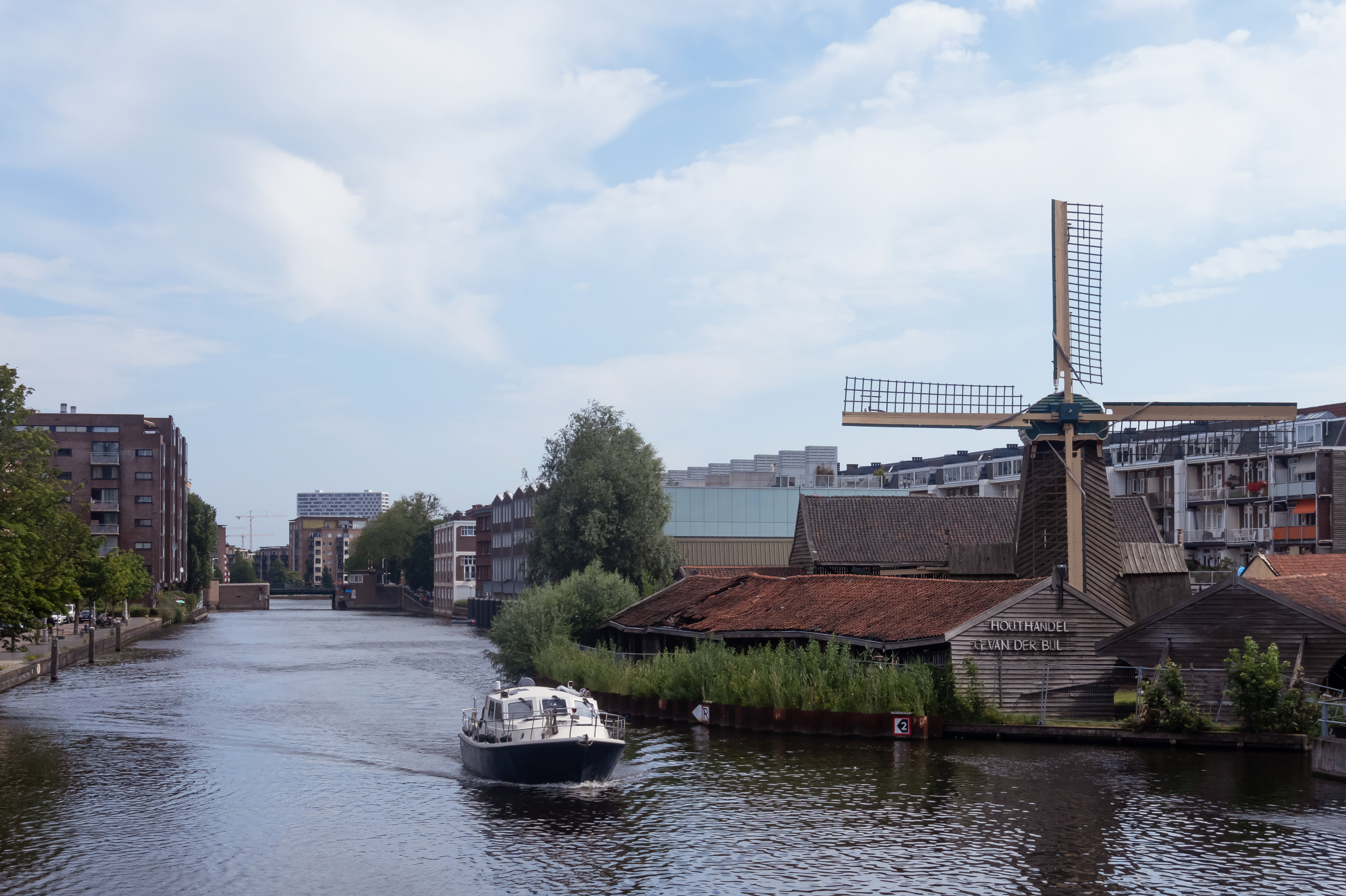 Amsterdam-Frederik Hendrikbuurt, windmill: houtzaagmolen de Otter